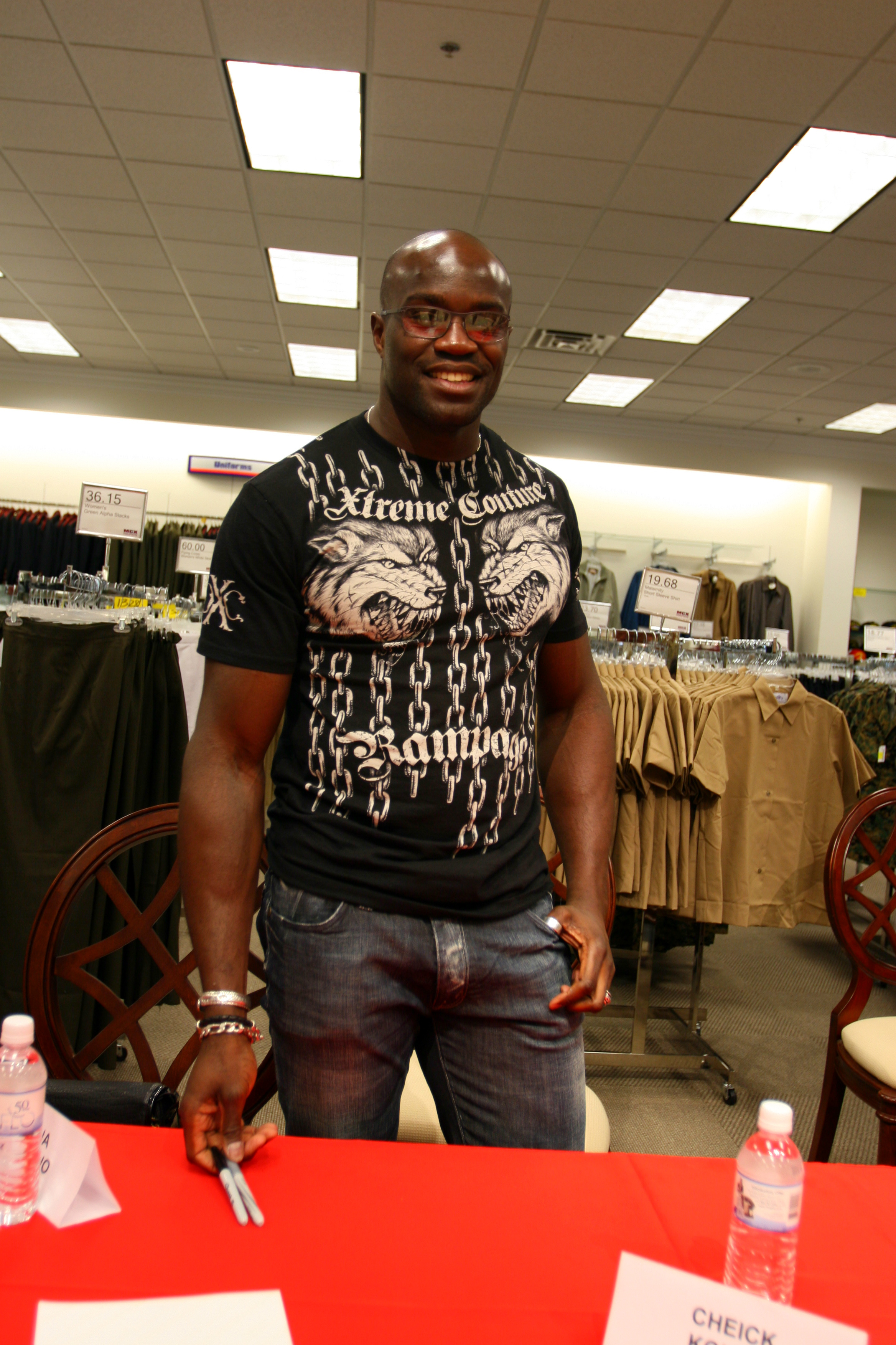 080103-M-5276L-010 MIRAMAR, Calif. (Jan. 3, 2008) Cheick Kongo, an Ultimate Fighting Championship fighter, pauses for a photo during the Ultimate Fighting Championship Affliction autograph signing at the Marine Corps Air Station Miramar Marine Corps Exchange.